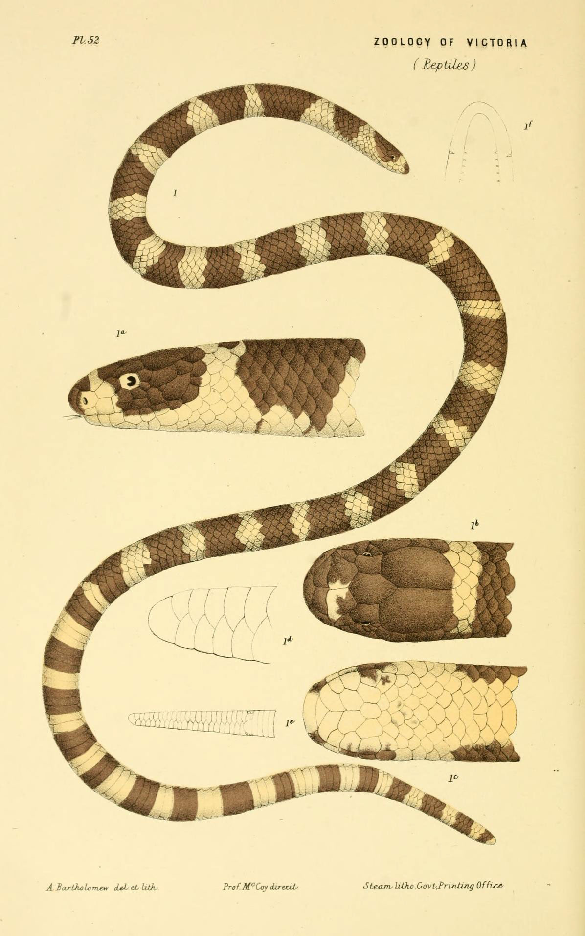 Fl.SZ ZOOLOGY OF VICTORIA ( Reptdes) A BarOwLorruM djiJUtliliihy frof.M.'^OsydixtxiL Steairv IWio.Govt'J'rinUng Office